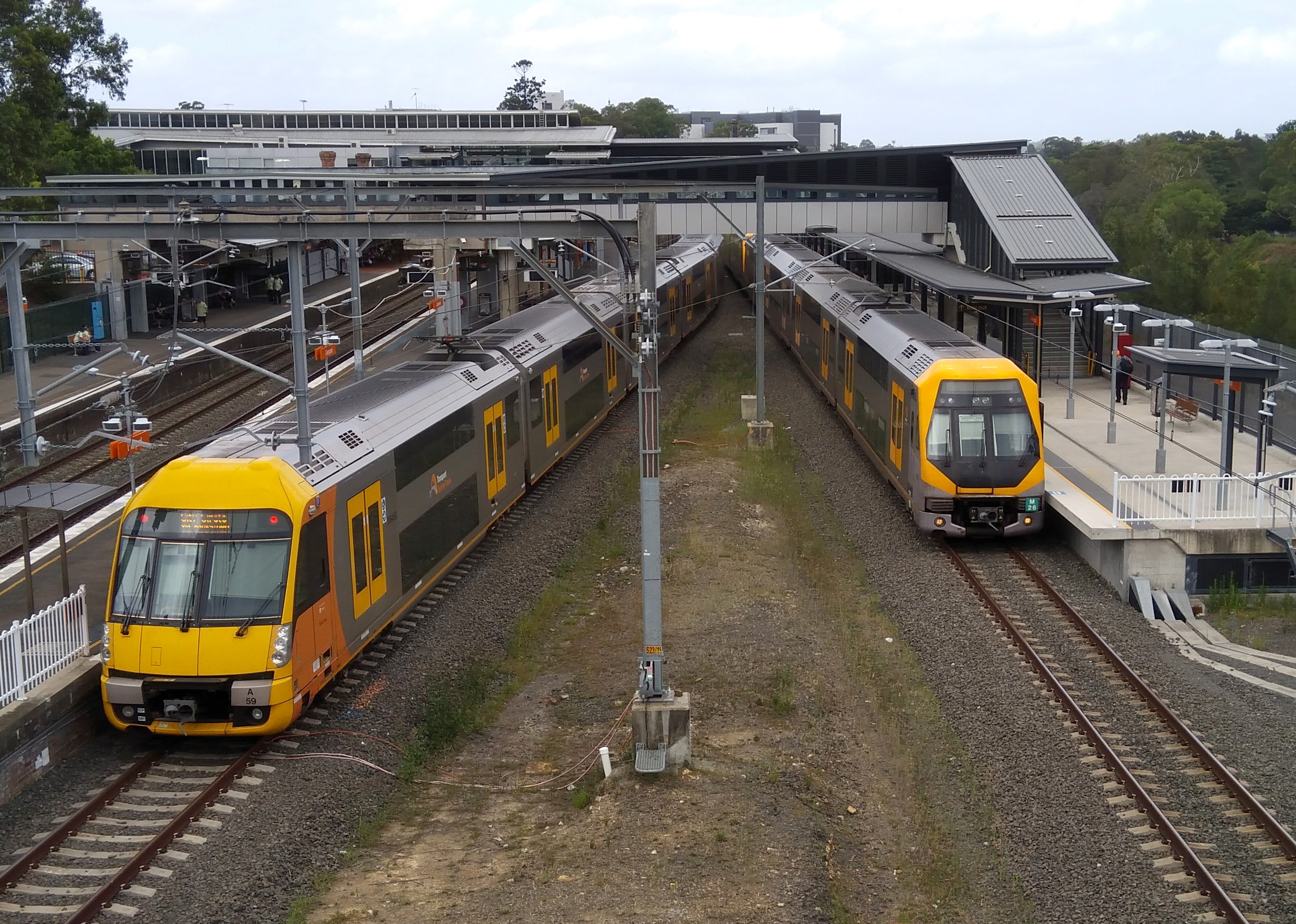 An A set (left) and a M set (right) at Liverpool railway station. The A sets are an evolution of the M set design.